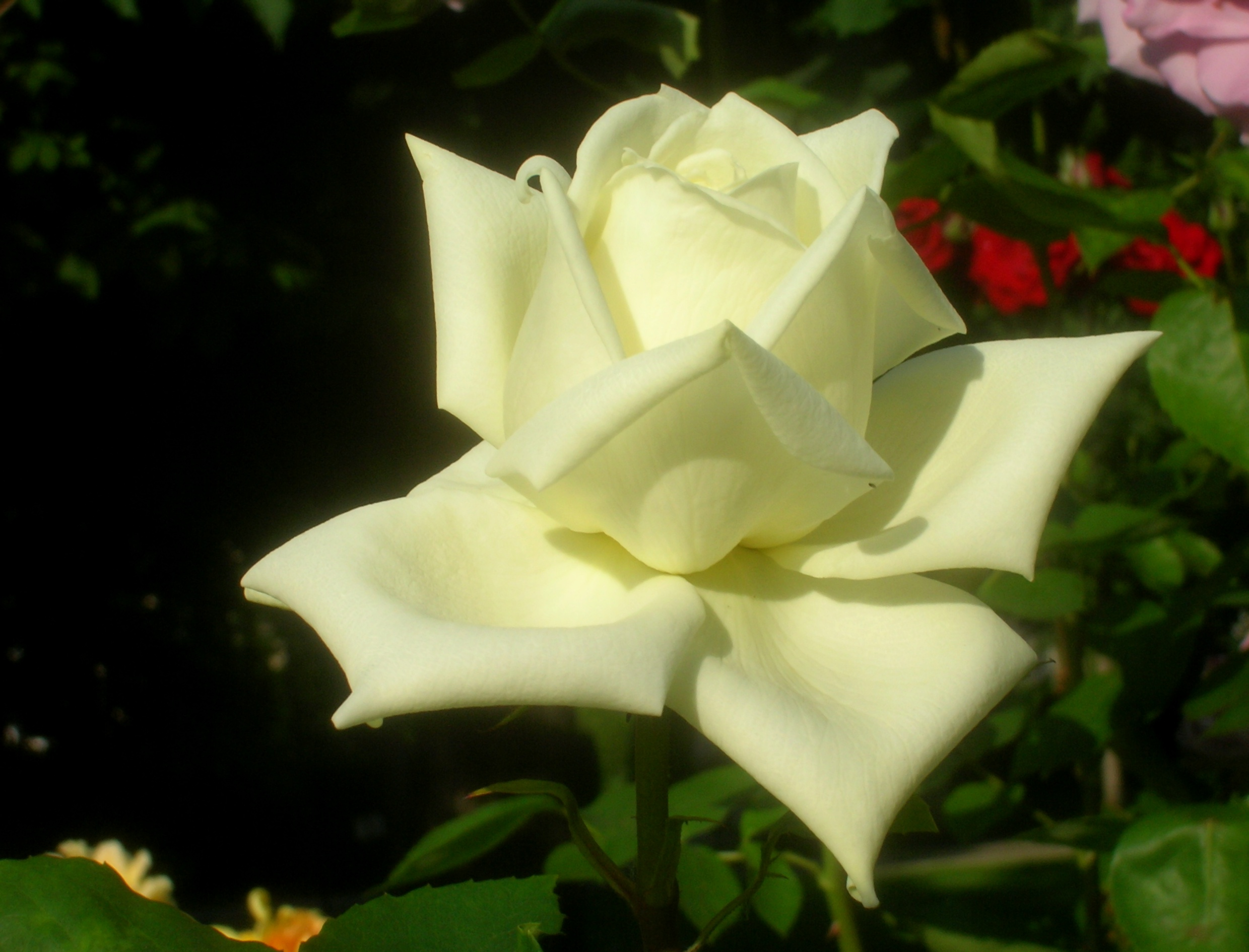 Rosa 'Polarstern' in the Volksgarten in Vienna. Identified by sign (Polarstern T.H. 1983).